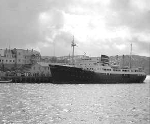 Norwegian coastal express ship (Hurtigruten) MS Erling Jarl (built in 1949)